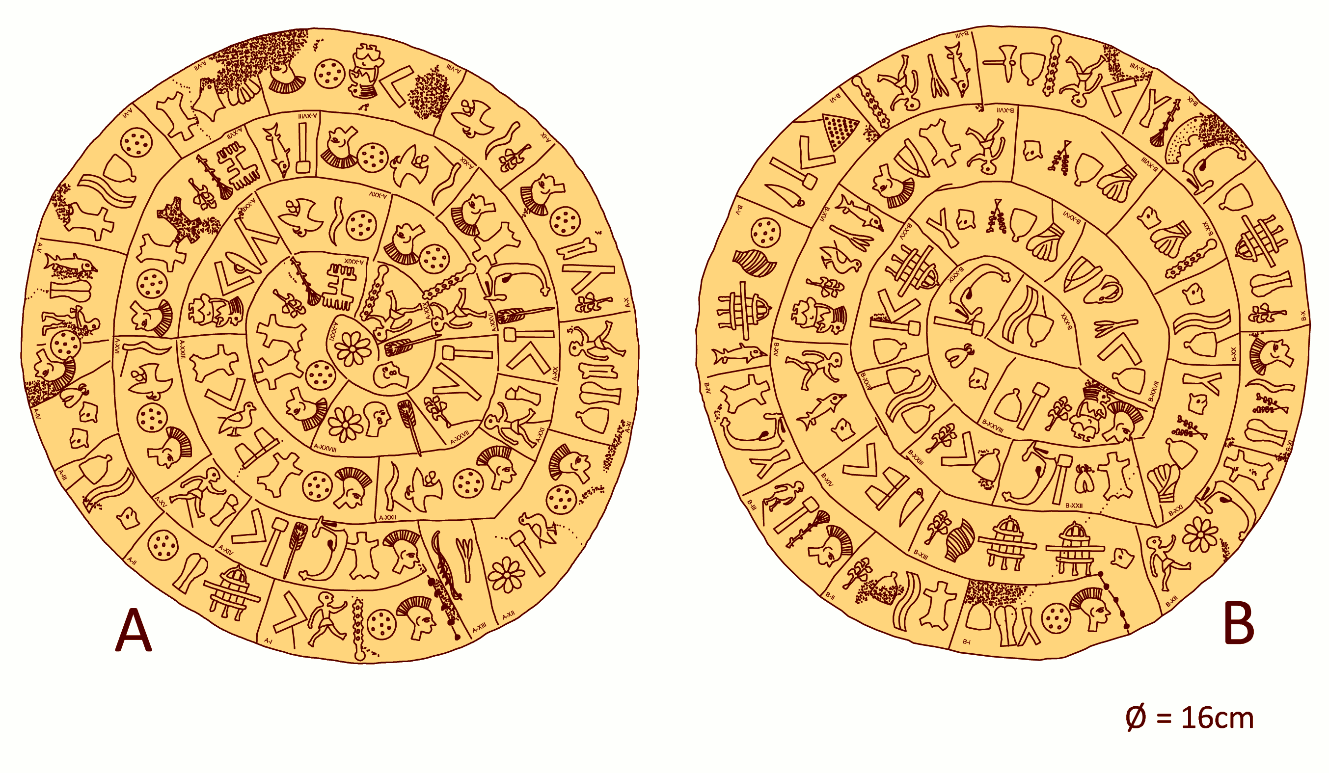 Phaistos Disc. Fields numbering by Louis Godart.